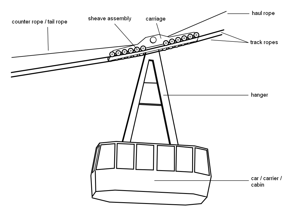 Scheme of an aerial tramway car